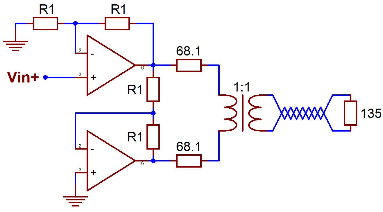 Standard schematic of an HDSL2 line driver with current-feedback op amps